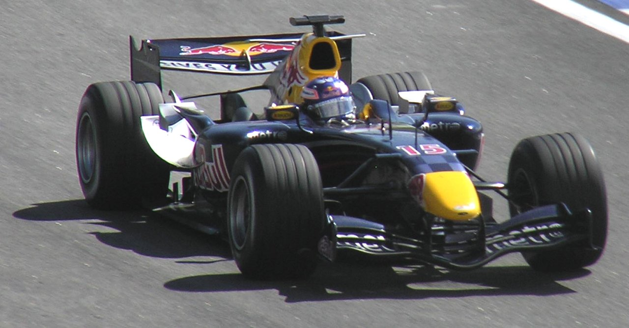 Formula One 2006 Rd.18 Interlagos: #15 Robert Doornbos (Red Bull Racing)